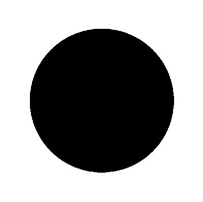 Gray scale image of a black circle with a white background.